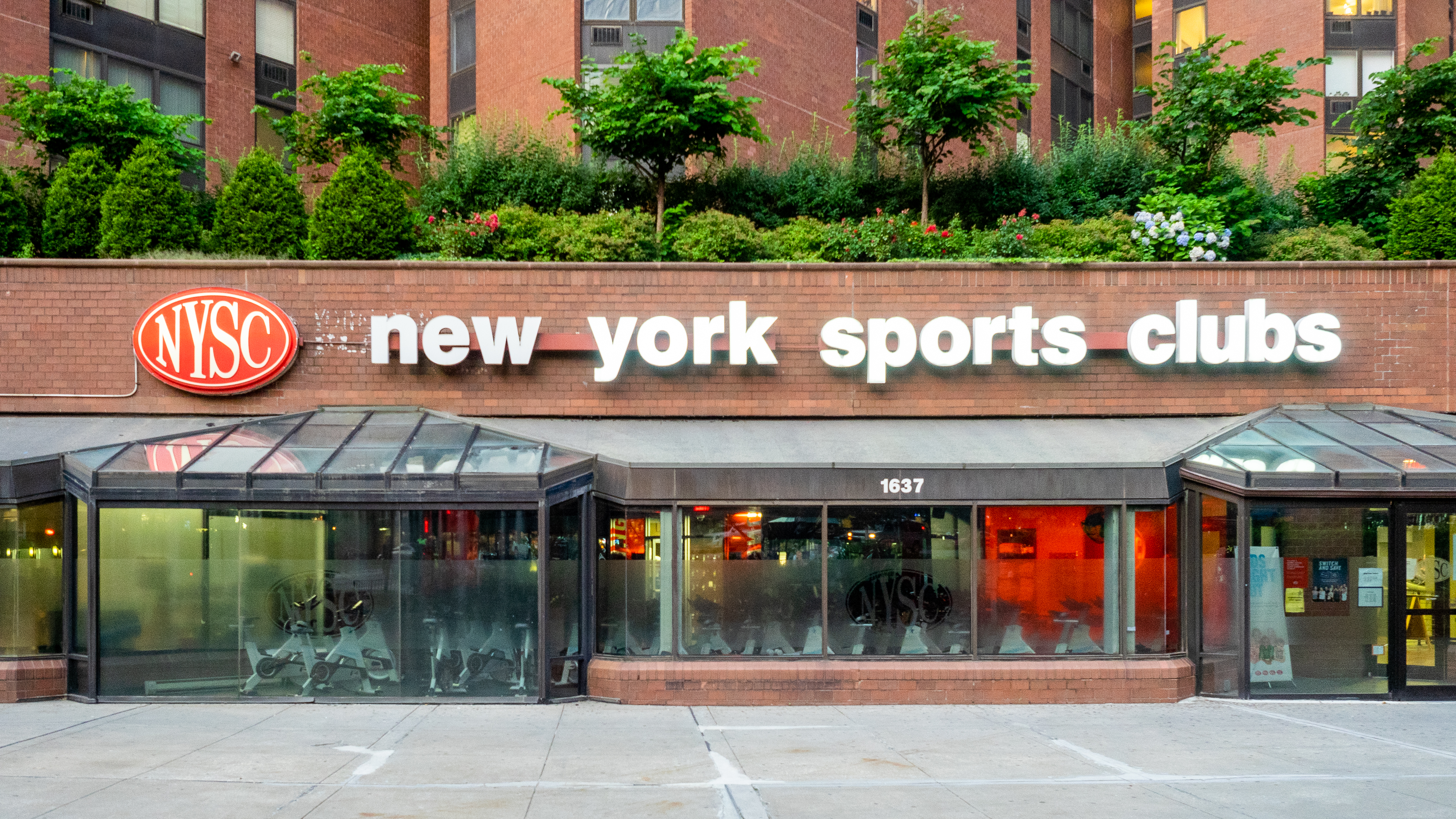 Upper East Side, Manhattan, New York